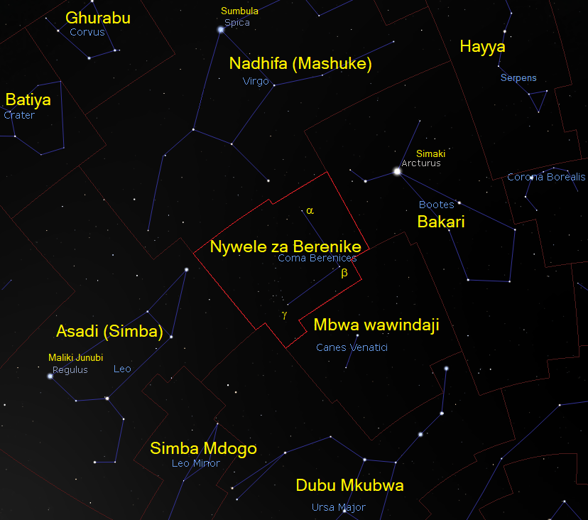 Constellation Coma Berenices as seen from Tanzania, Swahili labelled Kiswahili: Kundinyota Nywele za Berenike (Coma Berenices) jinsi inavyoonekana kutoka Tanzania, majina kwa Kiswahili